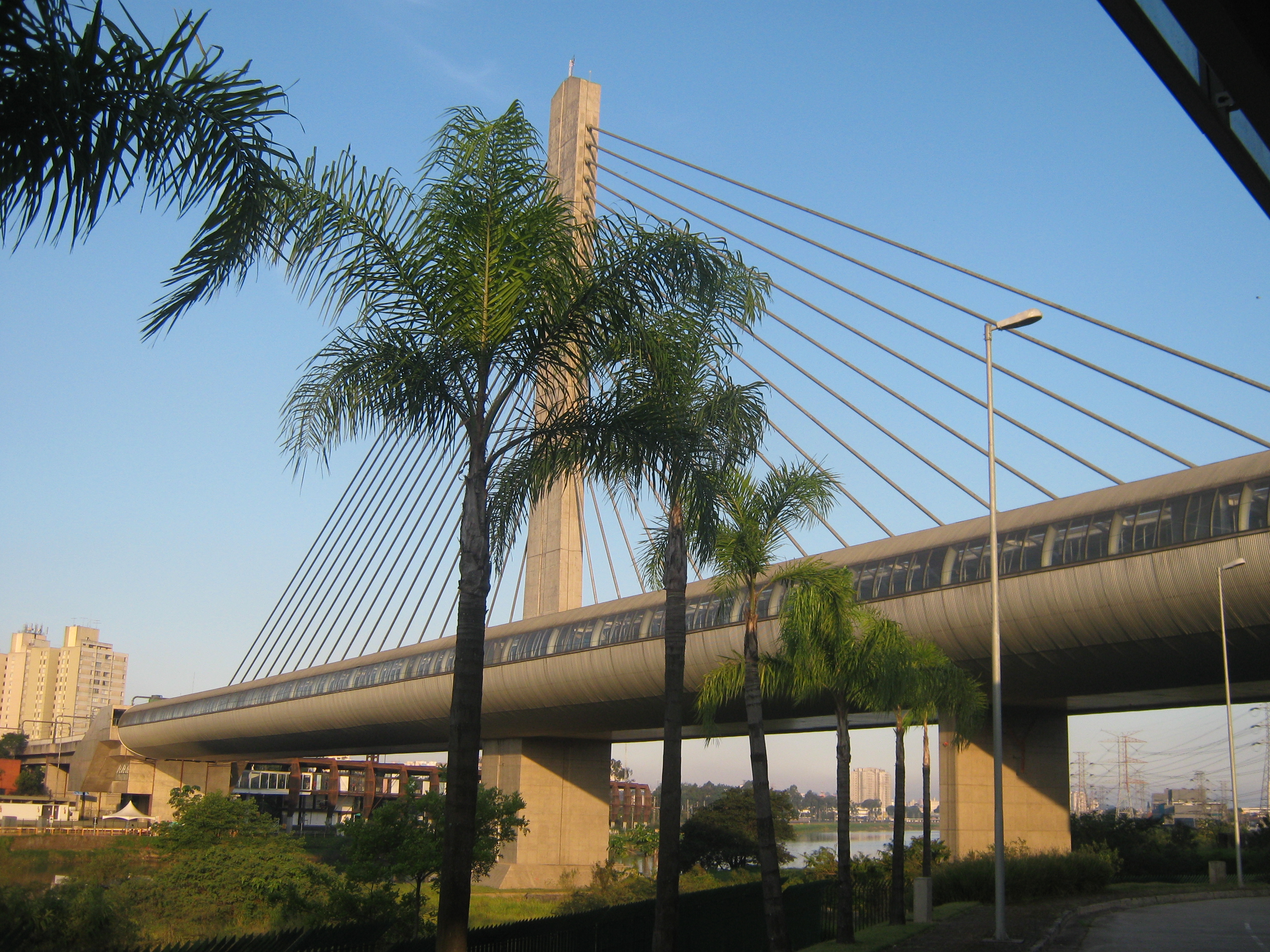 The Santo Amaro Station of São Paulo Metro.